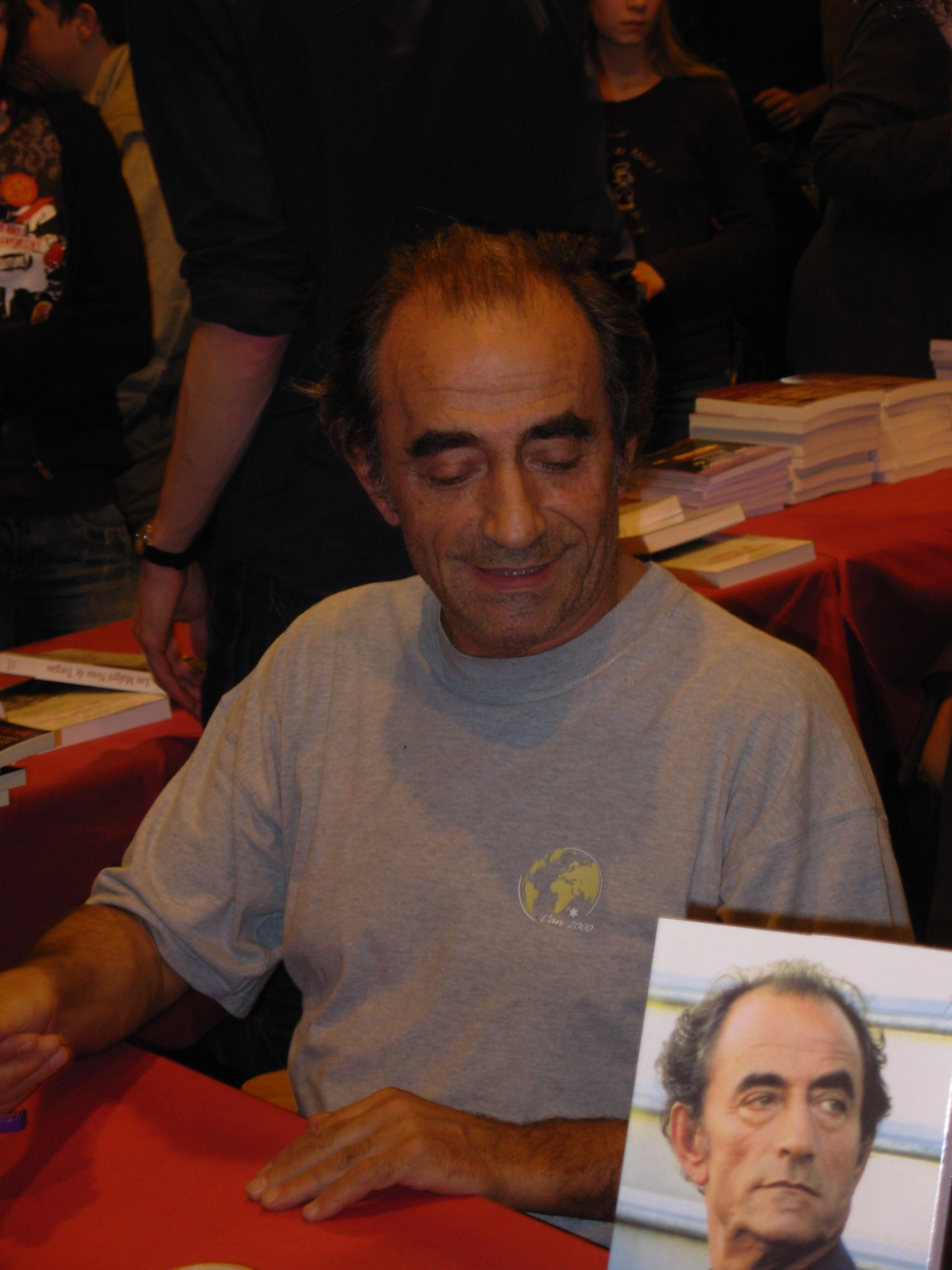 Richard Bohringer in the "salon du livre de Colmar" (Haut-Rhin, France).